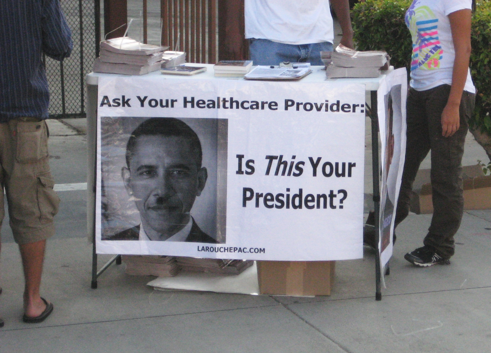 Members of the LaRouche movement with a display, showing Barack Obama with a "Hitler mustache".